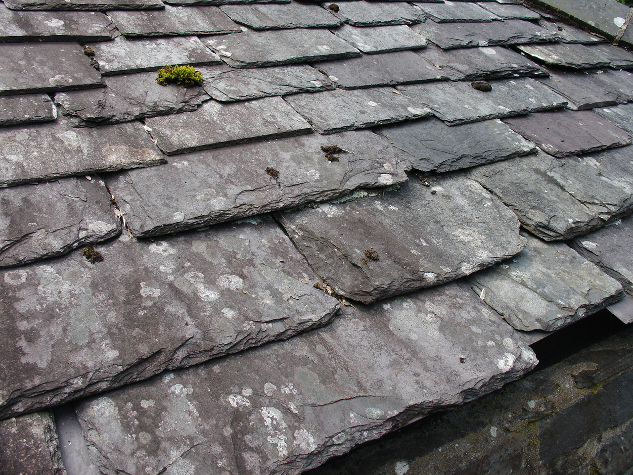 St. Fagans, National Museum Wales (Cardiff, UK): Tannery (slate roof)